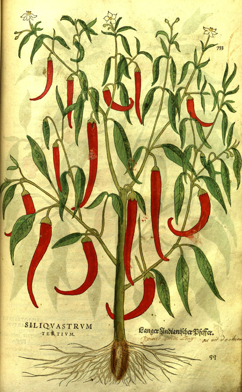 Plate from 1542 book "De historia stirpium commentarii insignes". Text by Leonhart Fuchs and illustrations by Albrecht Meyer, Heinricus Füllmaurer and Veit Rudolph Speckle